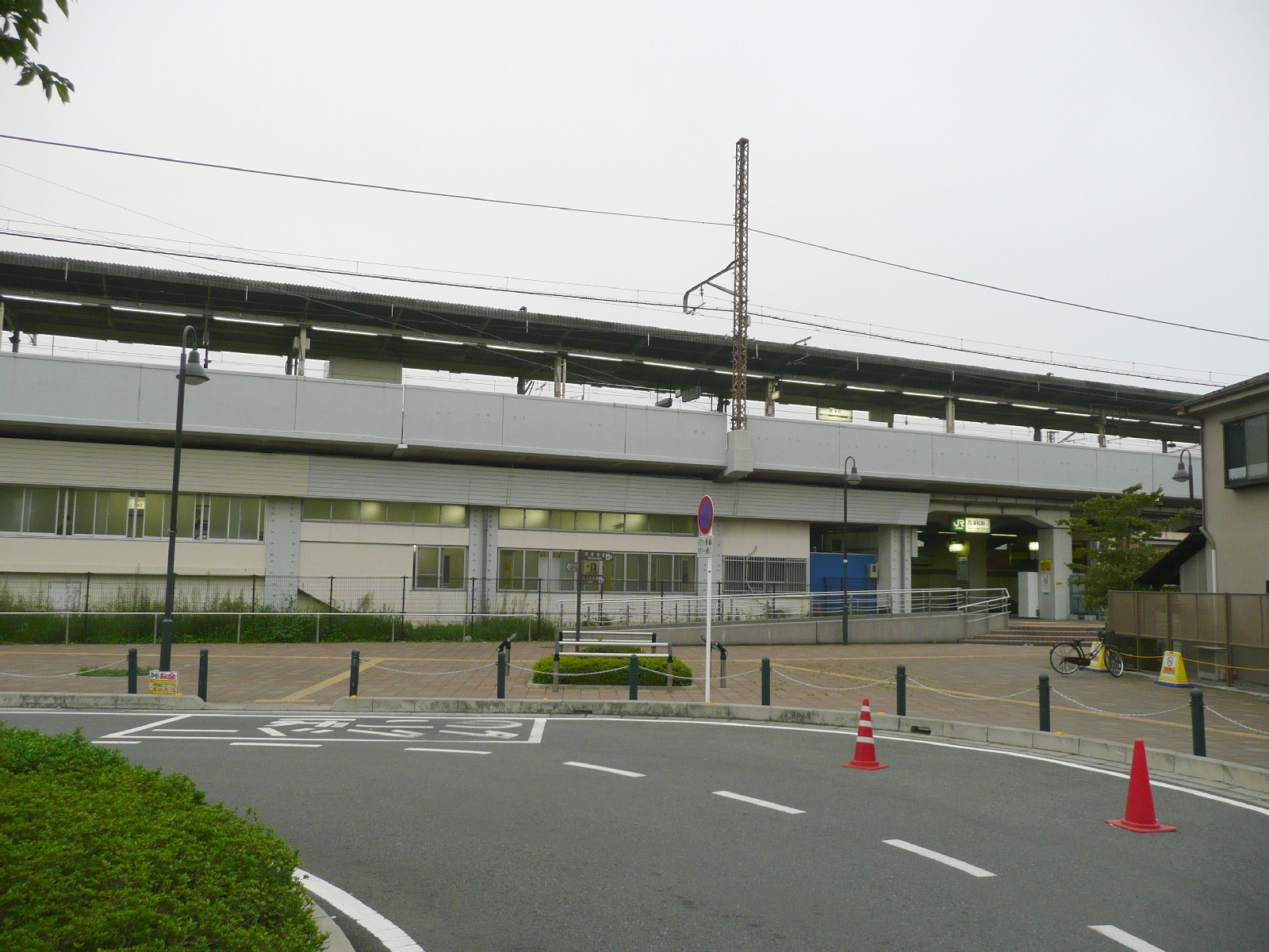 Nishi-Urawa Station